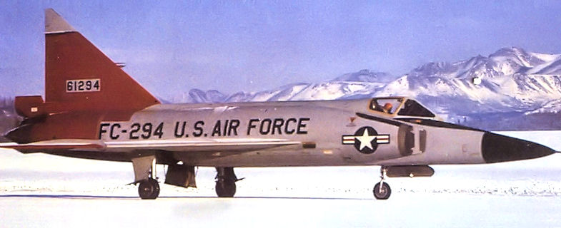 31st Fighter-Interceptor Squadron - Convair F-102A-70-CO Delta Dagger - 56-1294, Elmendorf AFB, Alaska, 1958